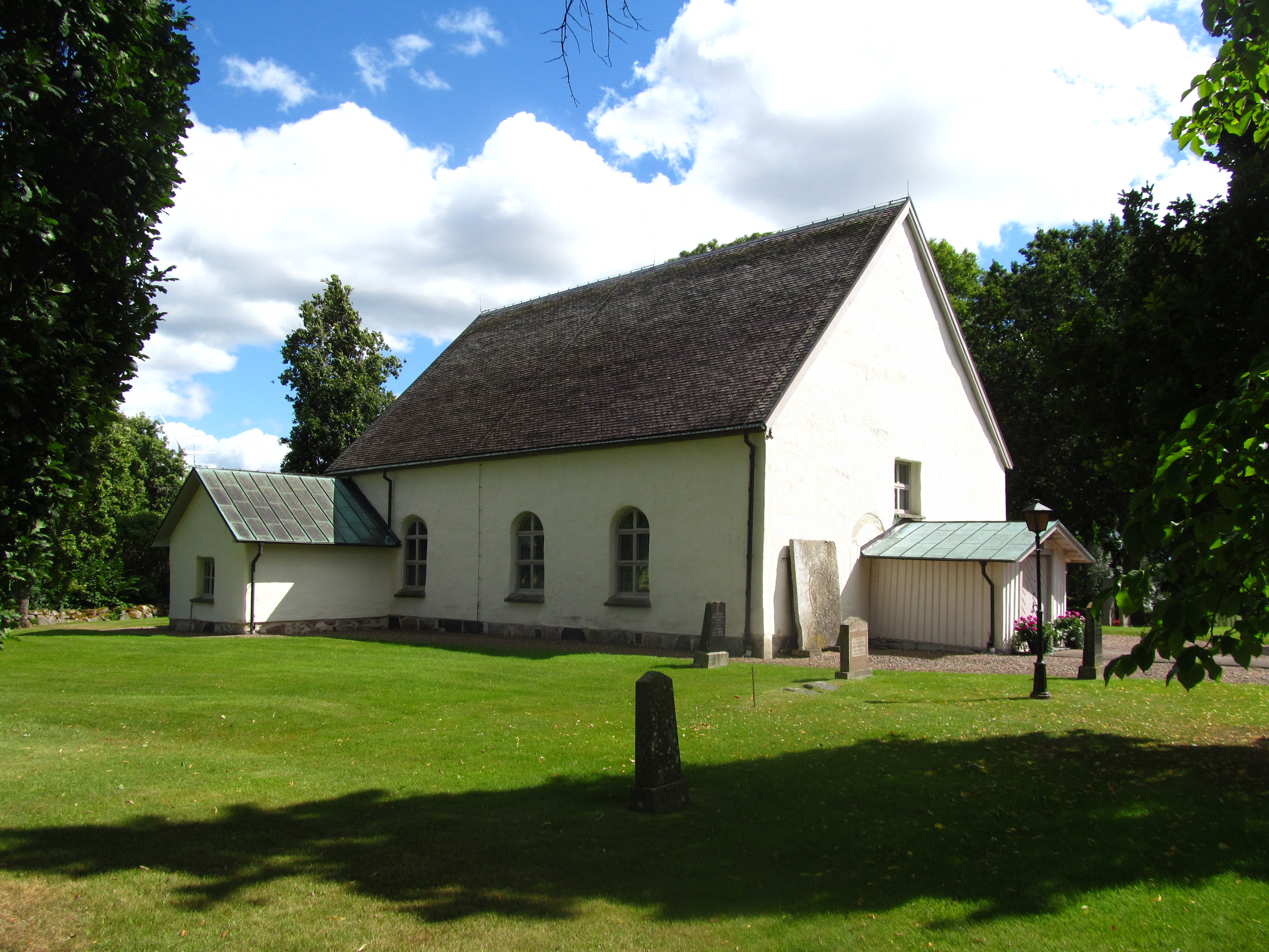 Längjum church